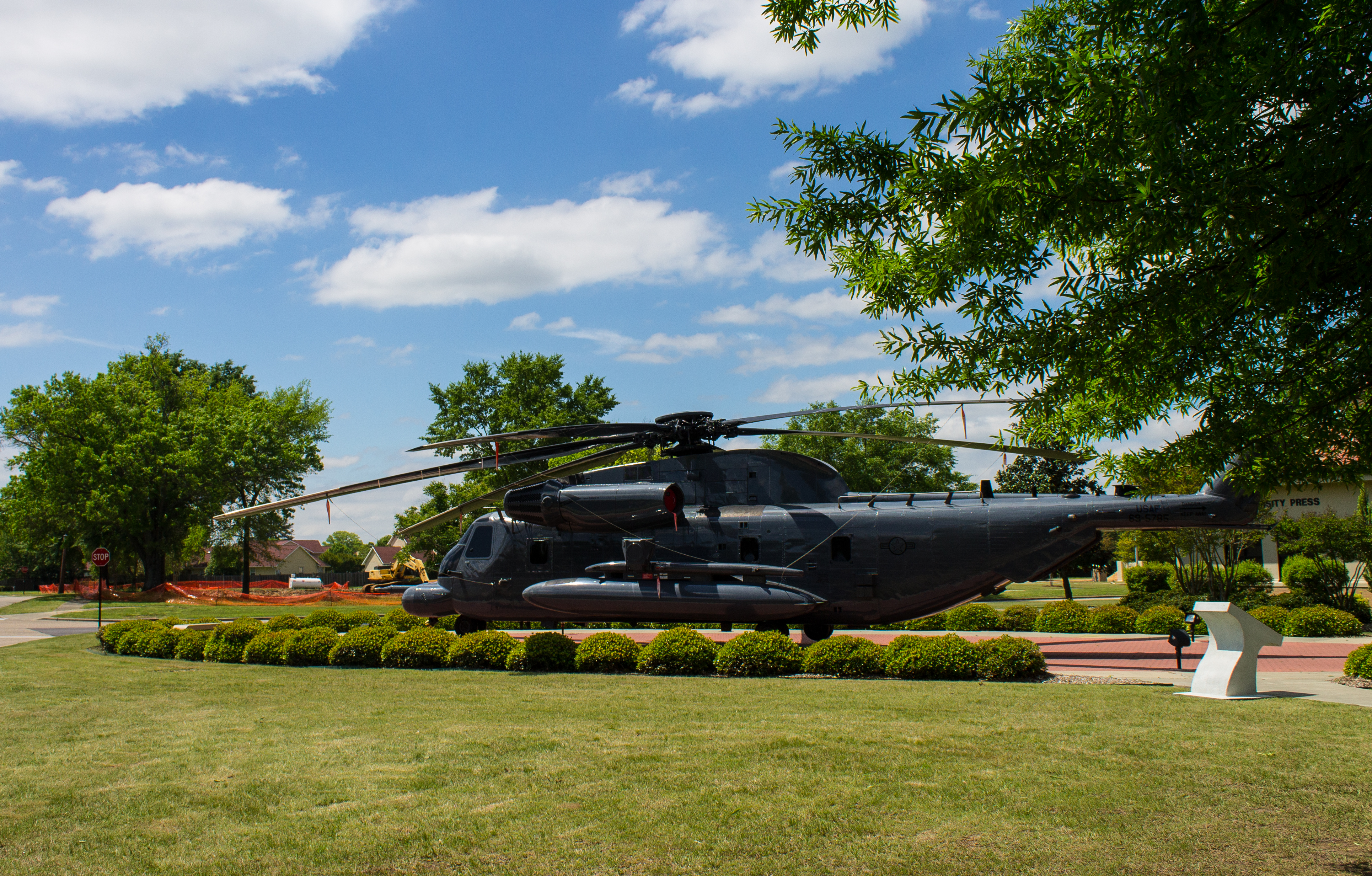 An MH-53 Pave Lowe IV (serial number #69-5785) on display at Maxwell AFB in Montgomery, Alabama.